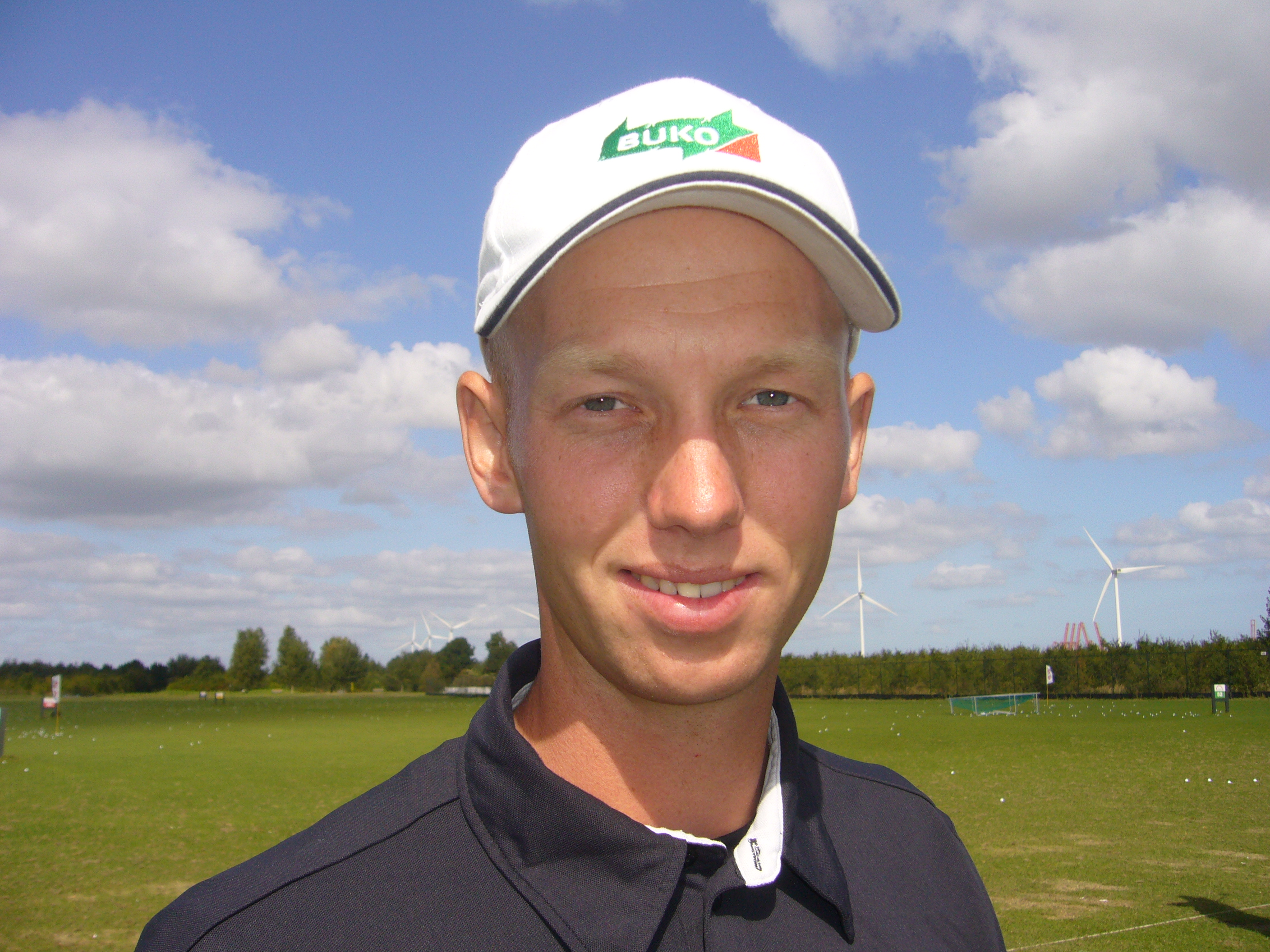 Sander van Duijn, Dutch golfprofessional